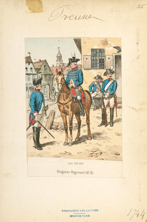 1745 prussian dragoons